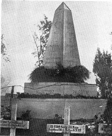 Original caption: "A memorial erected by the people of Richon Le Zion to the memory of the New Zealanders who fell at Ayun Kara on November 14, 1917".